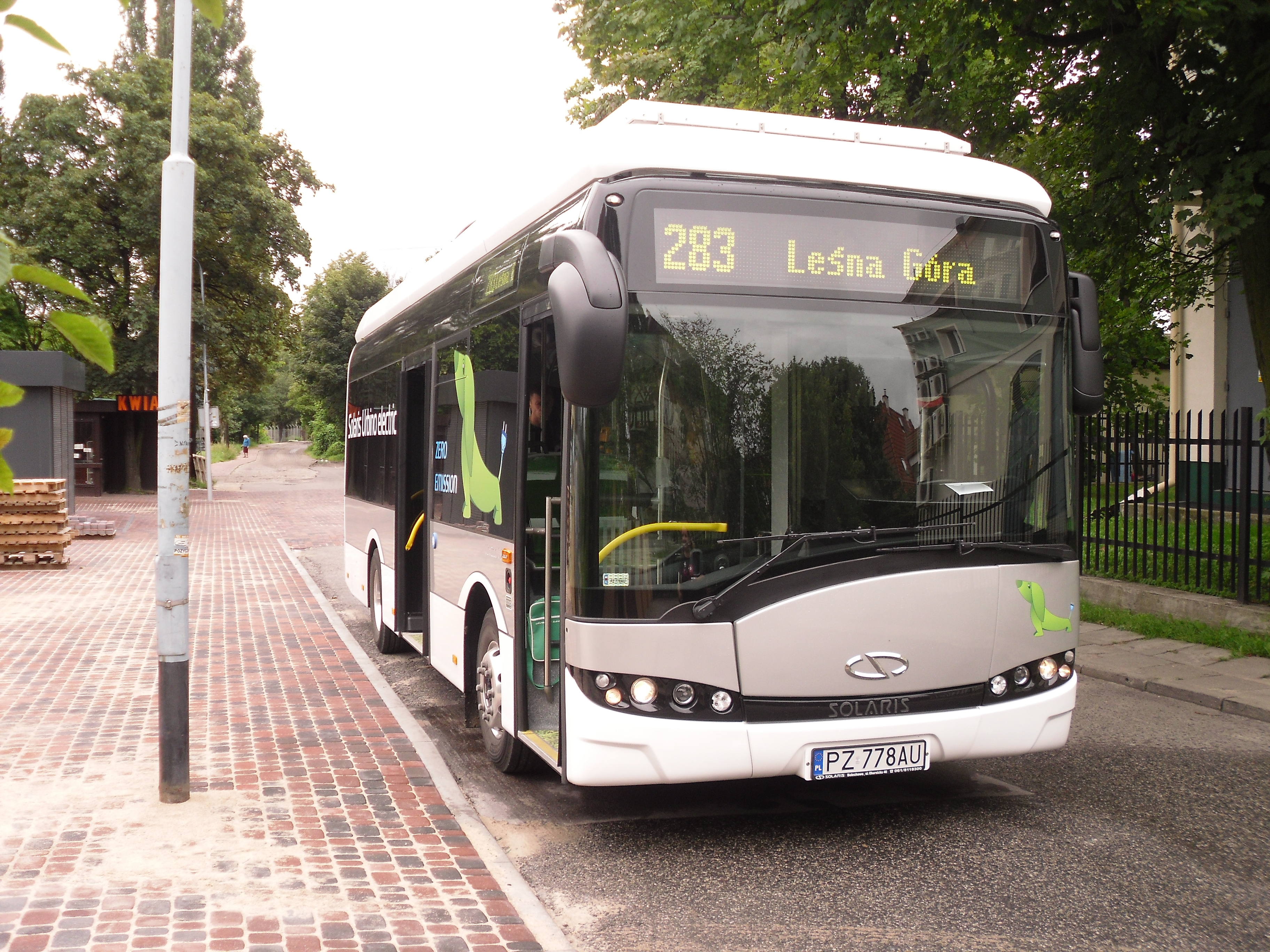 Solaris Urbino 8,9 LE electric bus prototype (reg. PZ 778AU) in Gdańsk, Poland. Built 2012.